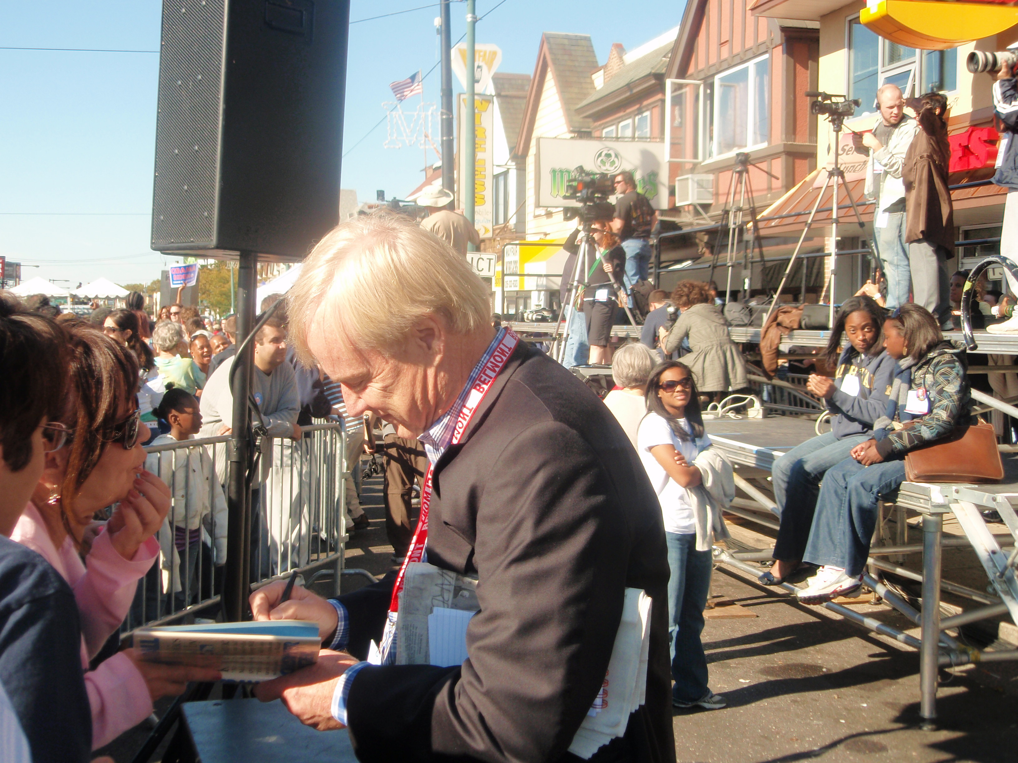 The famous MSNBC Host of 'Hardball' signing autographs.